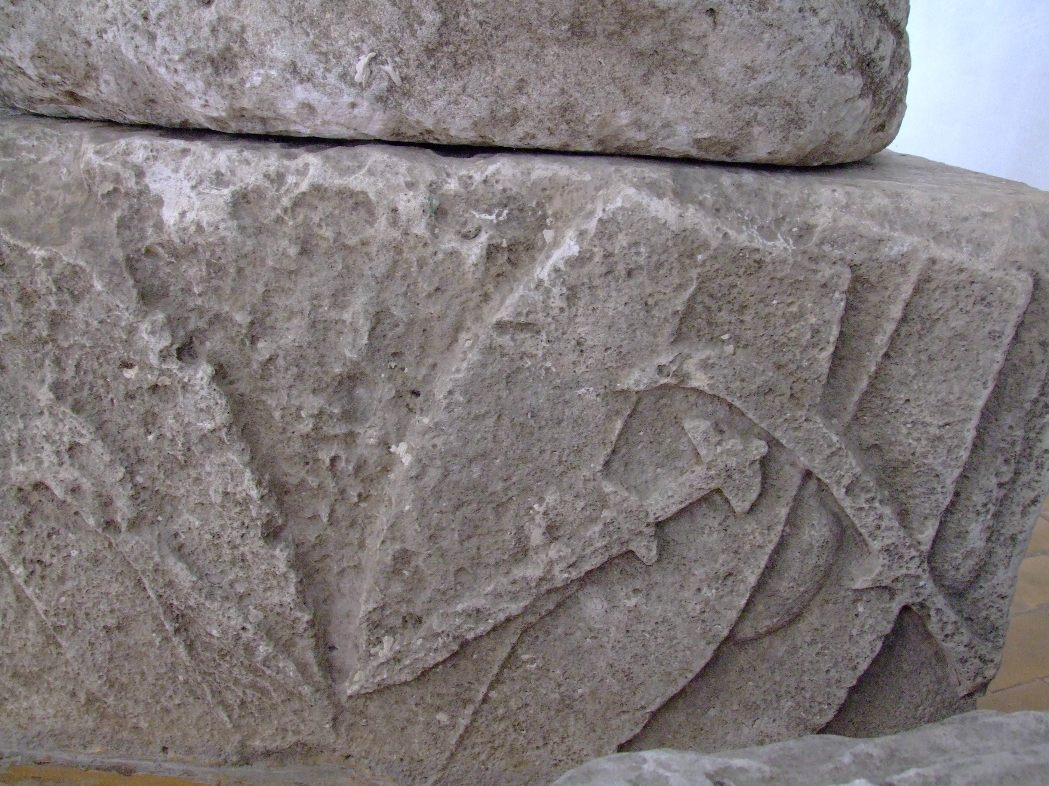 Detail of a Dacian falx on the Tropaeum Traiani trophy 05